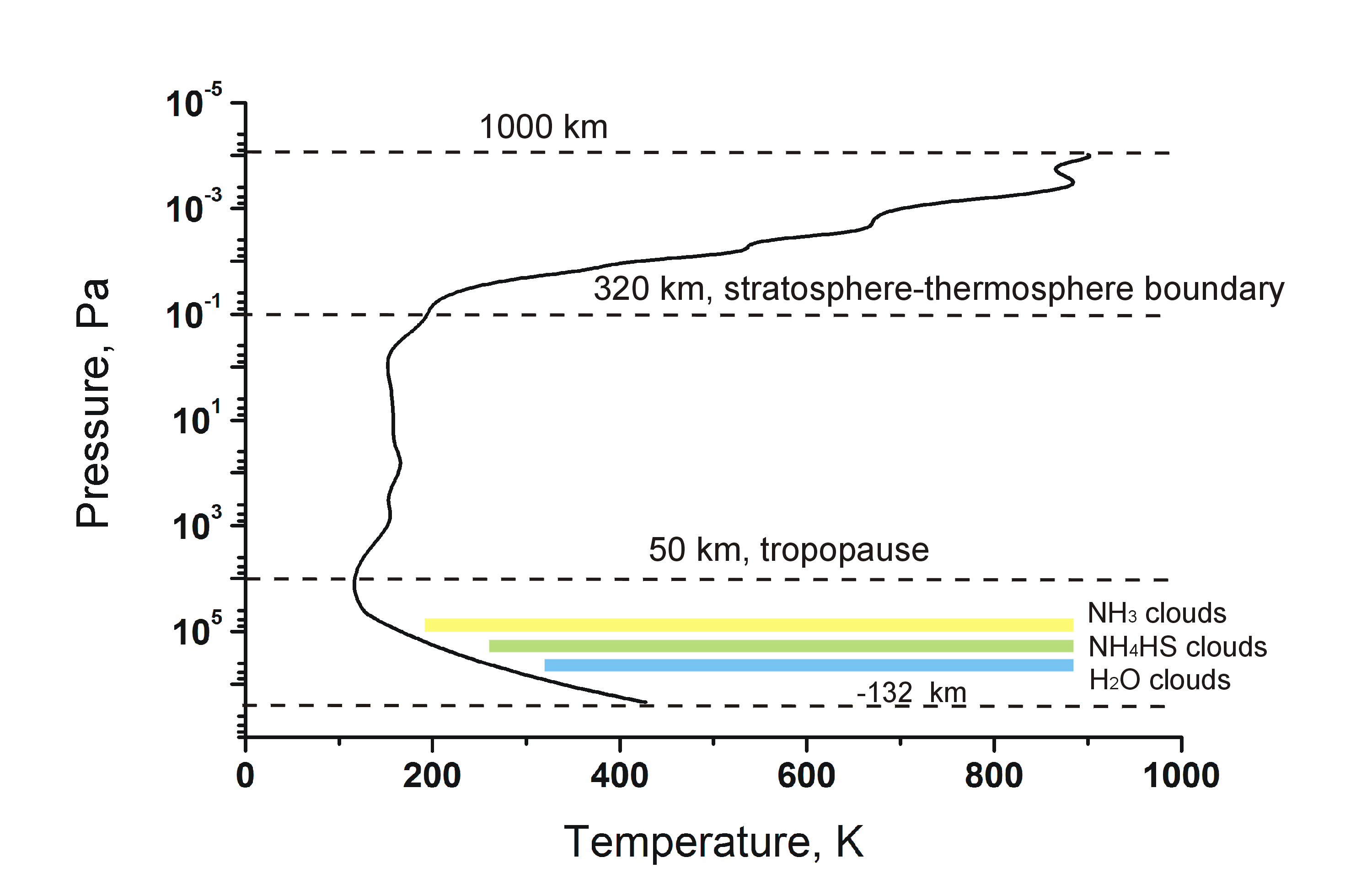 The image shows the vertical structure of the atmosphere of Jupiter. The temperature is shown as a function of pressure (black line). The approximate altitudes of atmospheric transitions troposphere–stratosphere (tropopause) and stratosphere–thermosphere are shown, as well as tropospheric cloud layers. The information was taken from Seiff, Alvin; Kirk, Don B.; Knight, Tony C.D. et.al. (1998). "Thermal structure of Jupiter's atmosphere near the edge of a 5-μm hot spot in the north equatorial belt". Journal of Geophysical Research 103: 22,857–22,889.